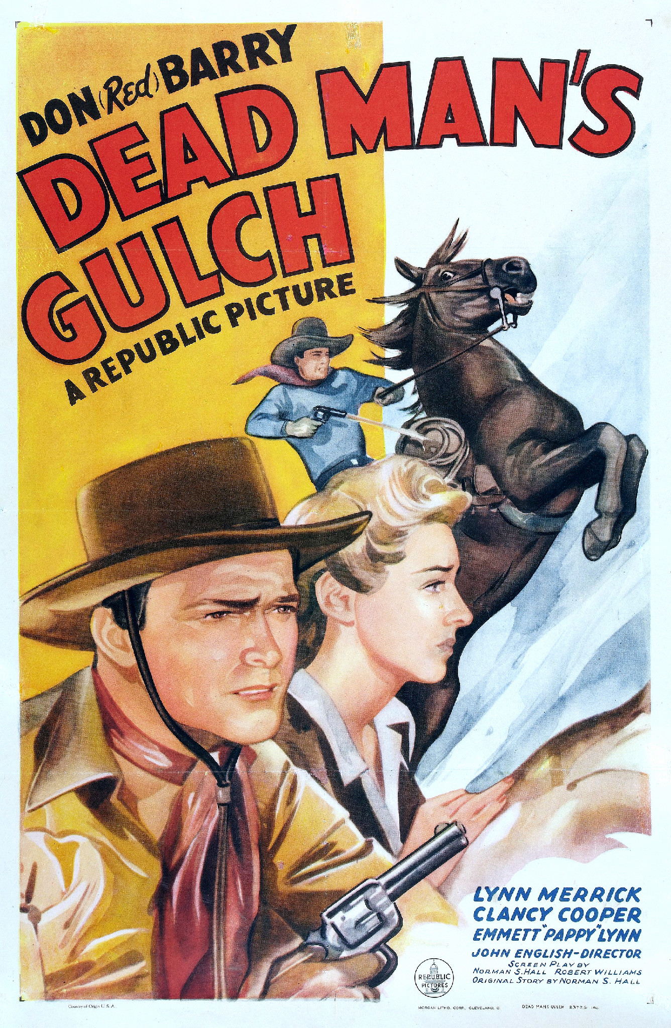 Poster for the 1943 film Dead Man's Gulch. There are no copyright marks. At bottom left is Country of origin USA. At bottom also is Morgan Litho Corp. Cleveland, O.-they printed the poster-and Dead Man's Gulch 23725 1IN.